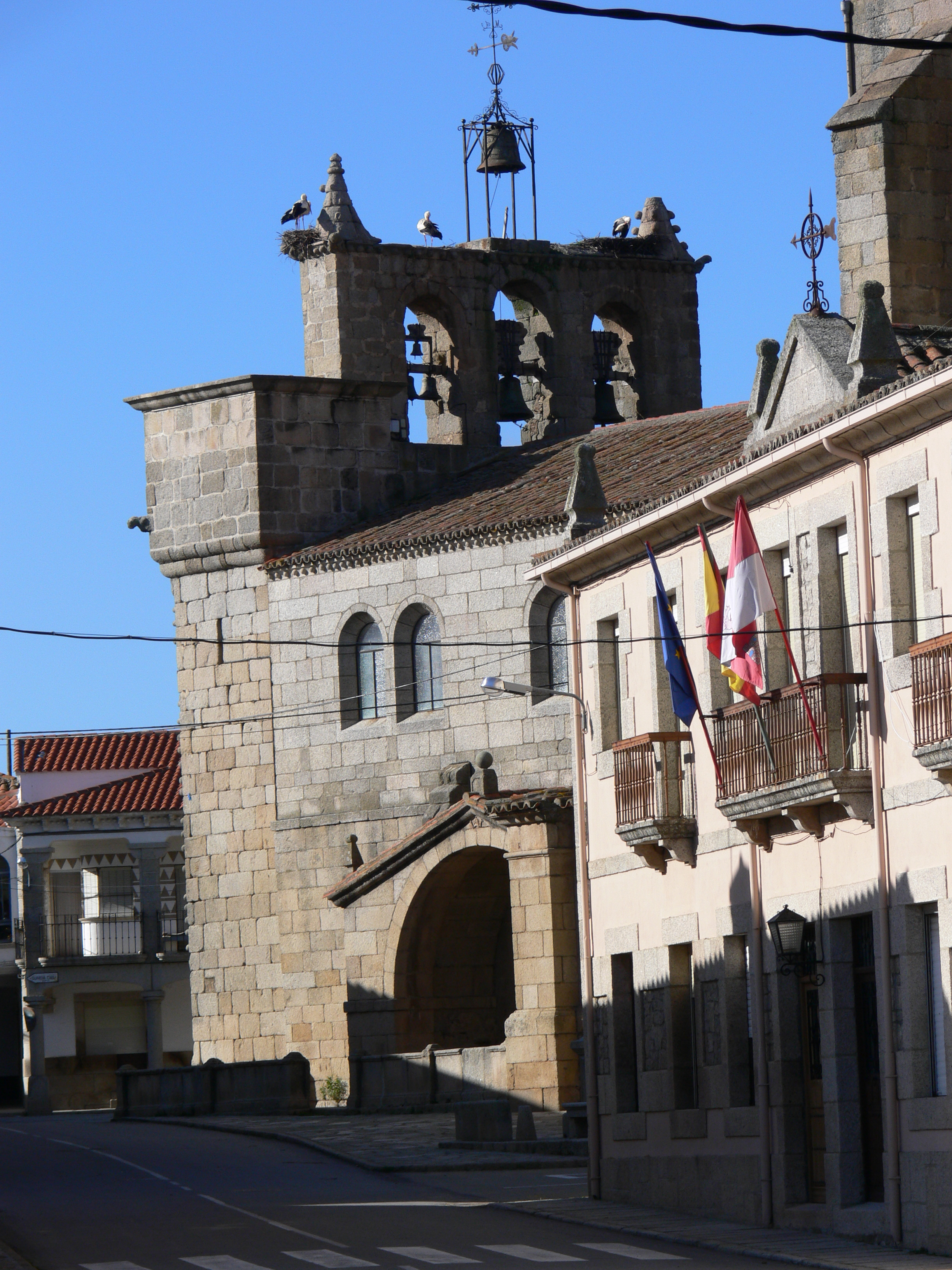 Church (Villavieja de Yeltes, Salamanca, Spain)